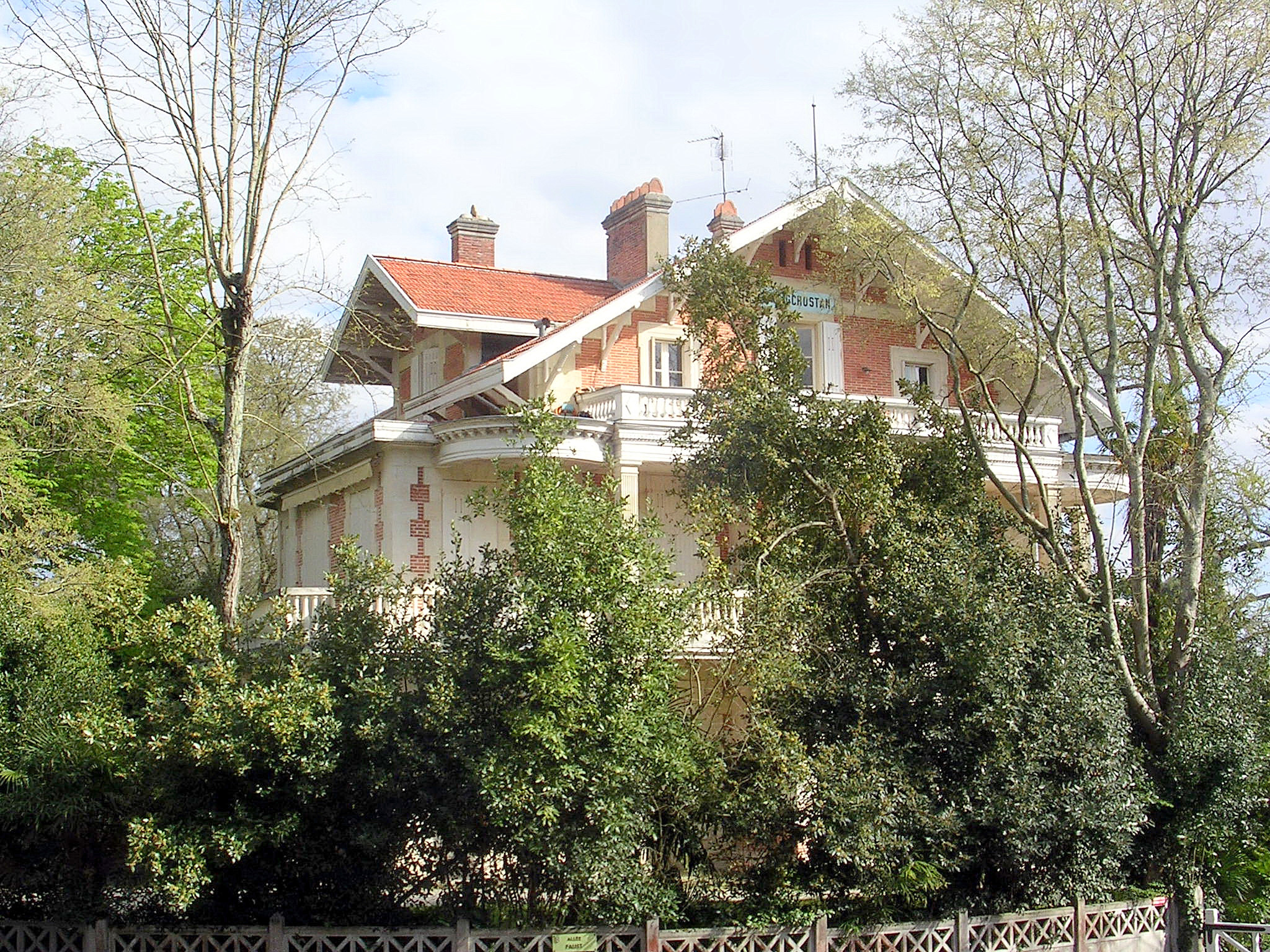 Mansion Graigcrostan in Arcachon